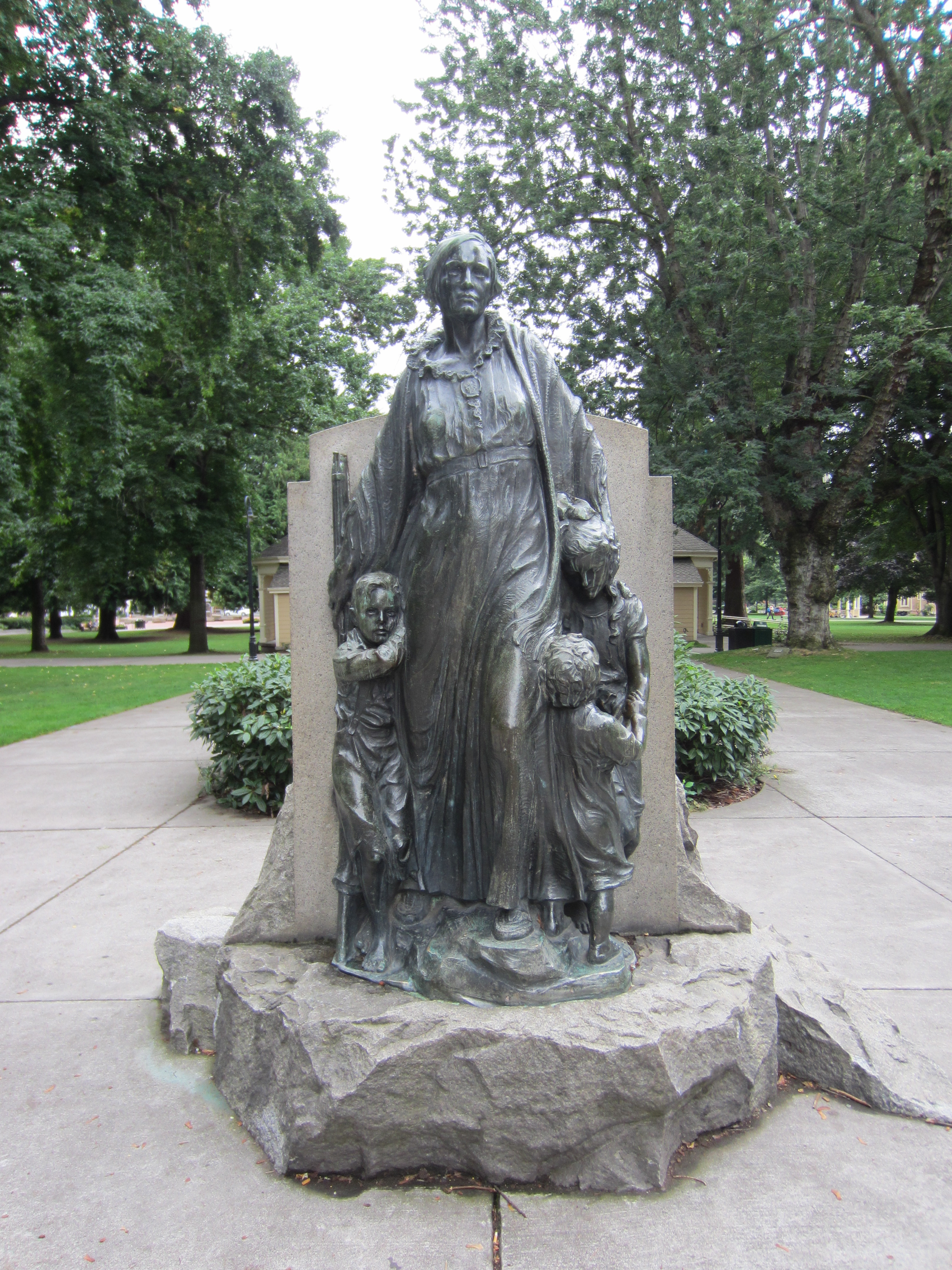 The Pioneer Memorial by Avard Fairbanks in Esther Short Park in Vancouver, Washington in September 2013